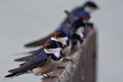 Author: A J Heunis. Took the photo at Boesmansriviermond, South-Africa